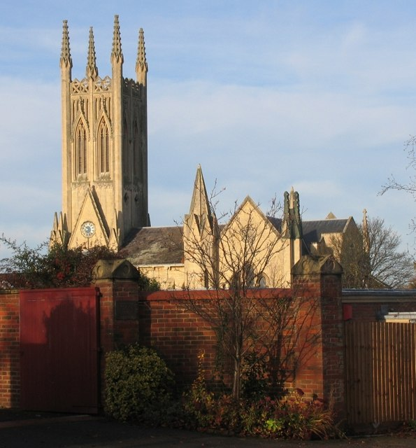 Christchurch, Malvern Road, Cheltenham The tower of Christchurch is visible all around this area. This photograph is taken from just in square SO9422